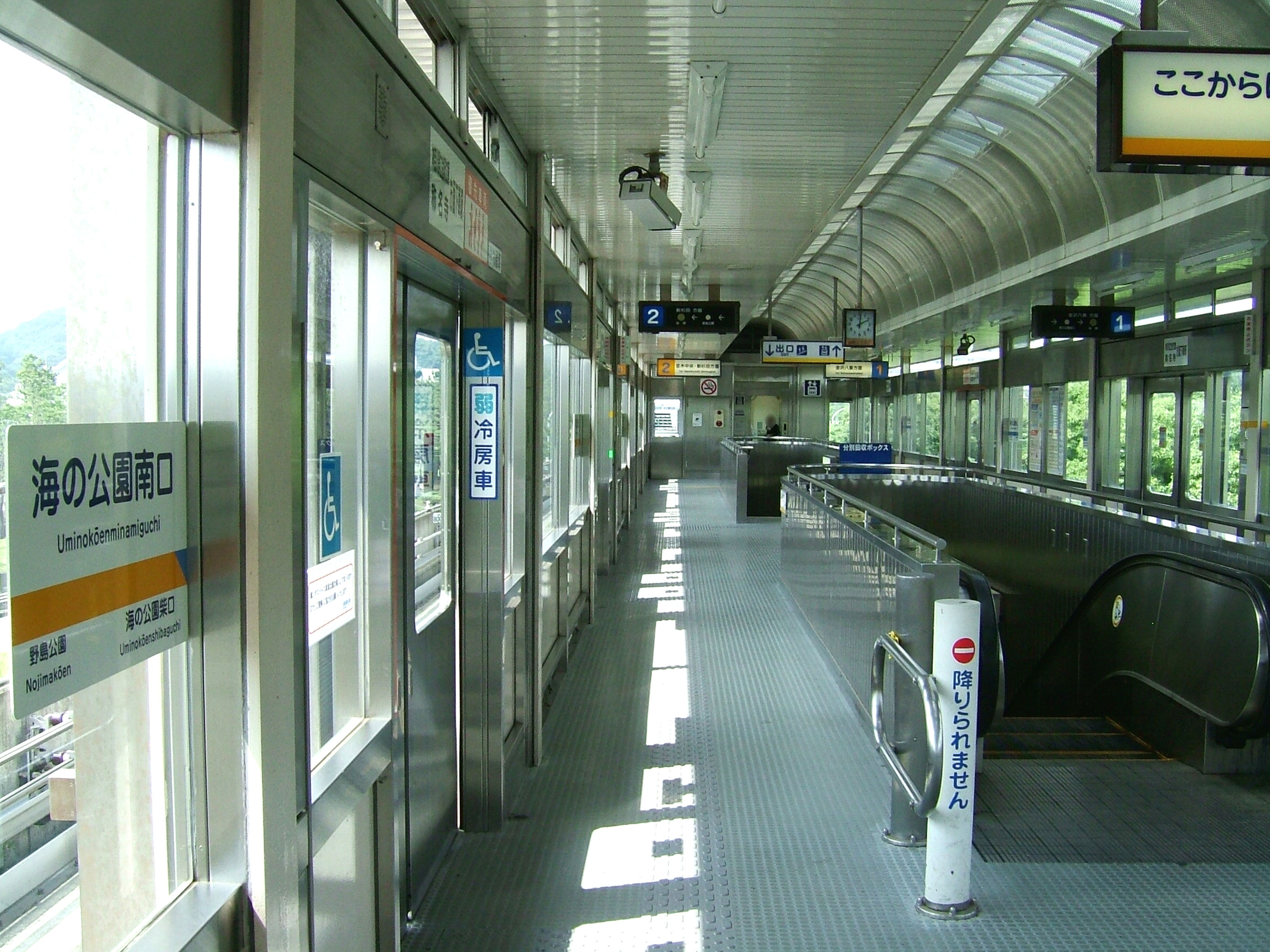 Uminokoen-Minamiguchi Station platform (Kanazawa Seaside Line)